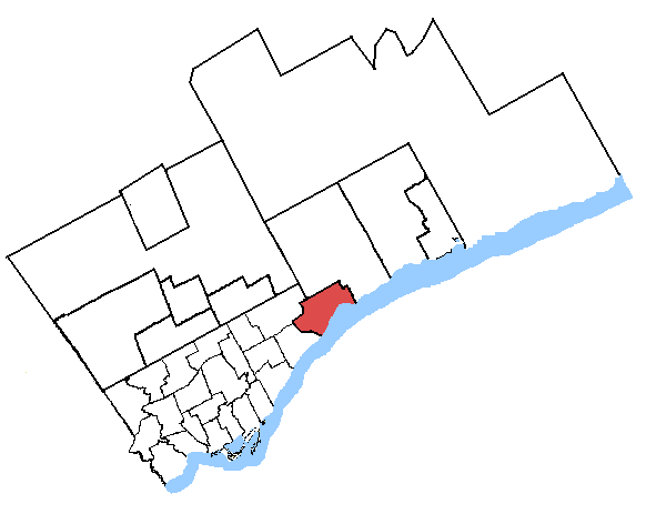 Map of the Pickering—Scarborough East electoral district. Based on Earl Andrew's maps, created by SimonP.